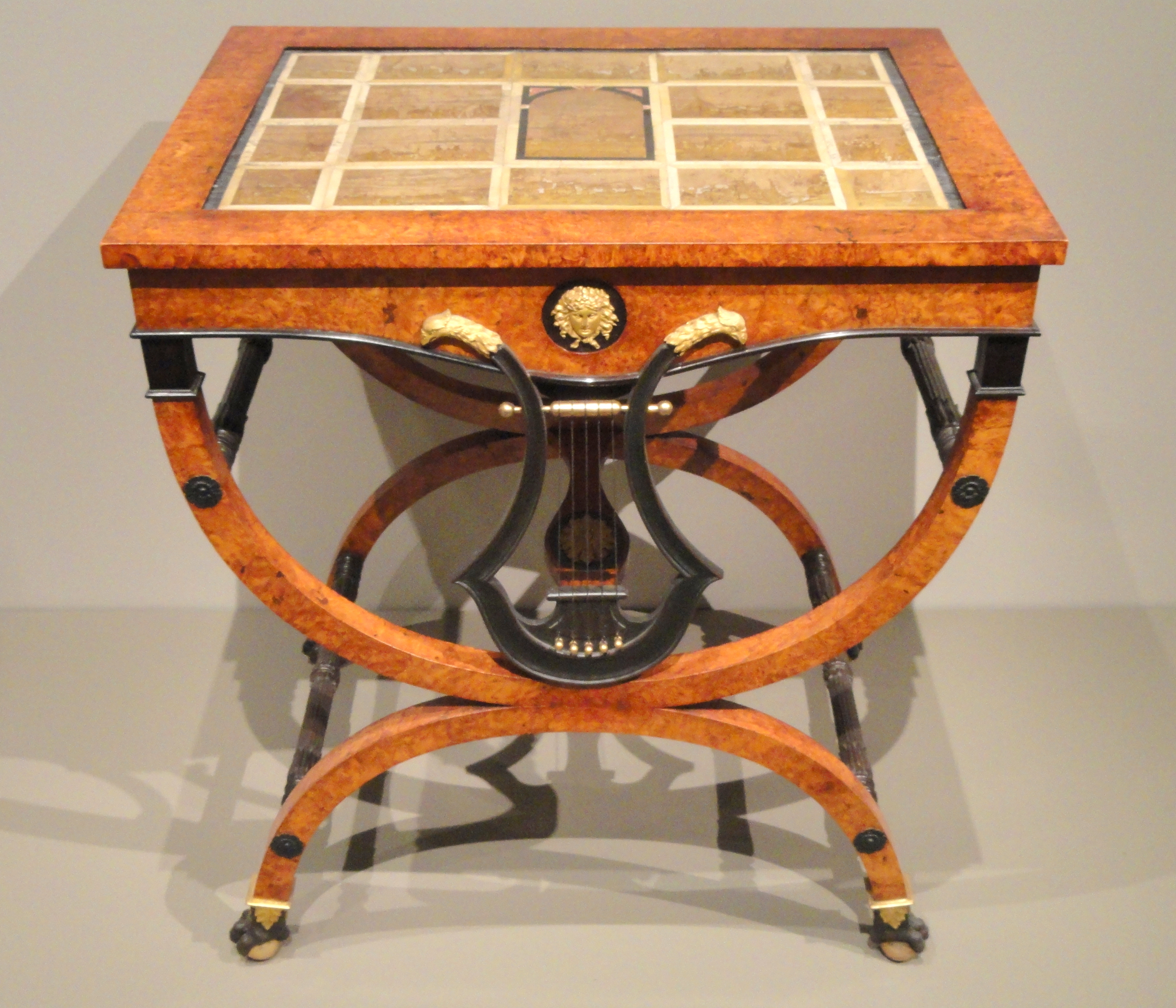 Exhibit in the Art Institute of Chicago, Chicago, Illinois, USA. This artwork is in the public domain because the artist died more than 70 years ago.